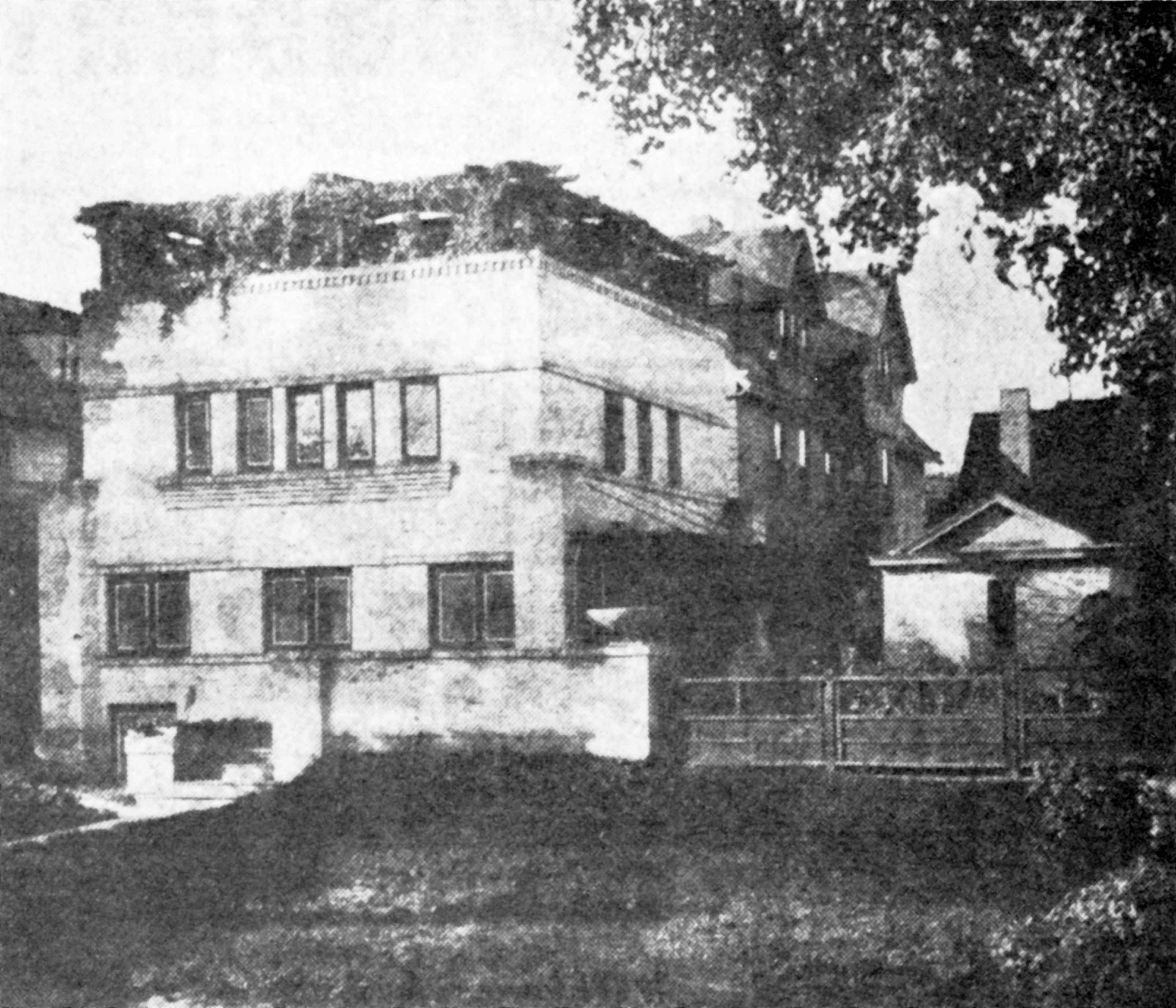 Photo of the Lamp House ca. 1910, showing the original roof garden pergola, later replaced by a children's playroom and a penthouse apartment.